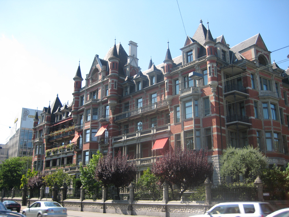 Rotes Schloss in Zurich, Swizerland